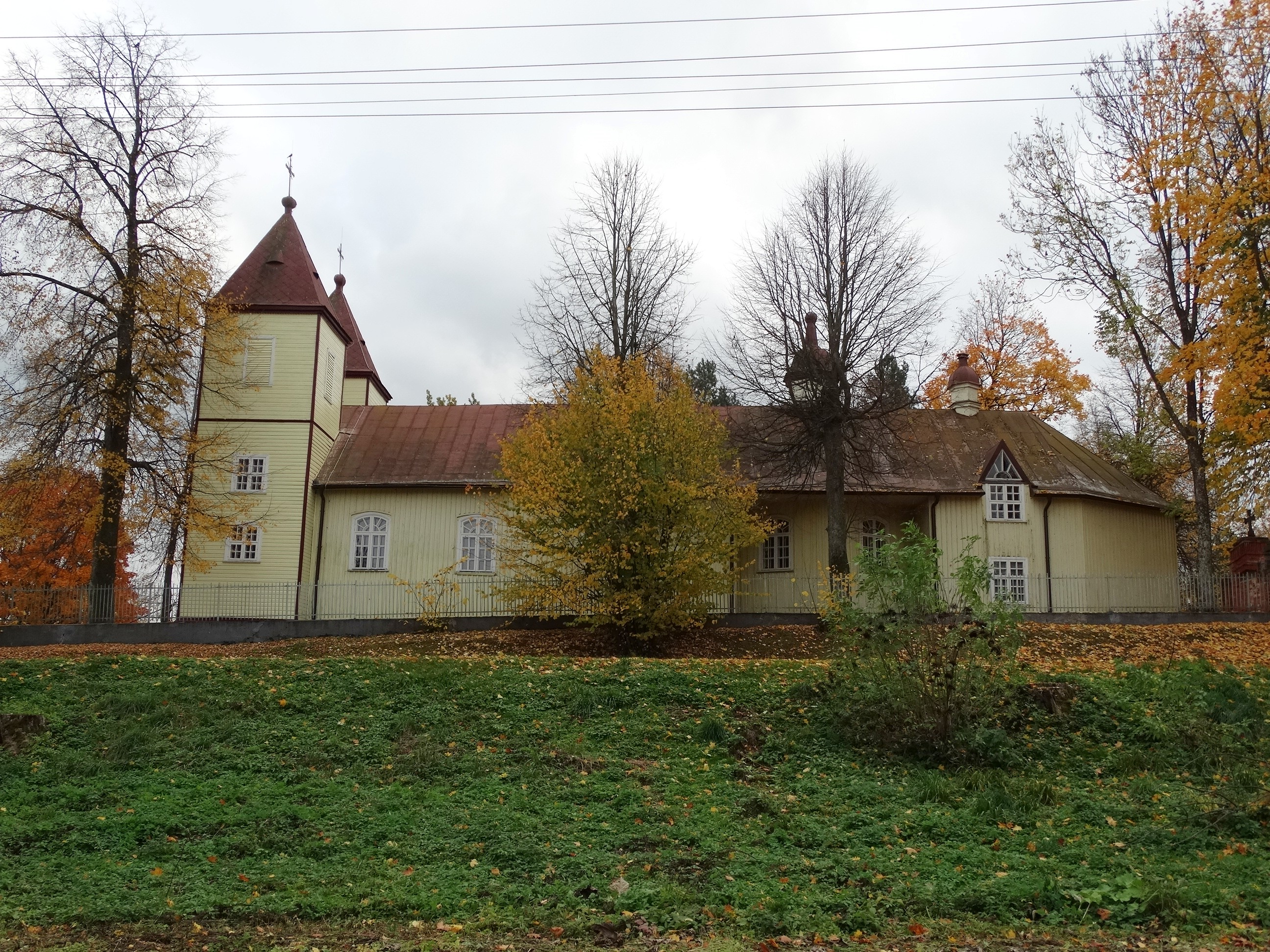 Roman Catholic Church of Jesus of Nazareth, Būdvietis, Lazdijai district, Lithuania